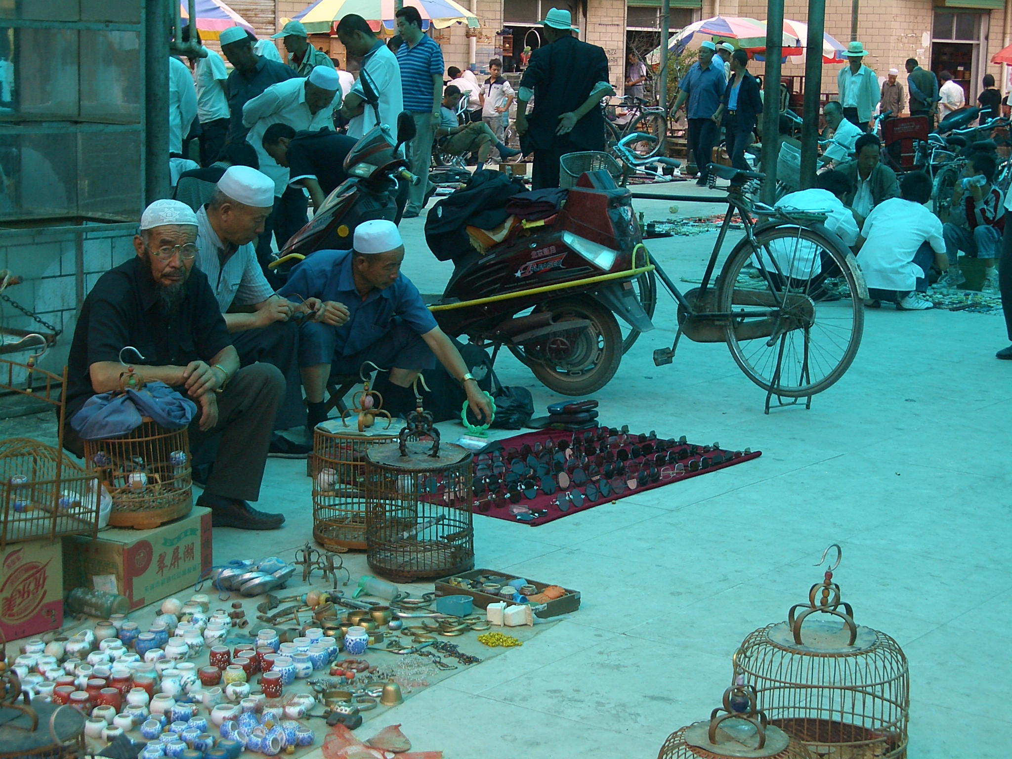 A market in the Dongguan section of Linxia City. Crafts, souvenirs, books, and pets are sold in this section These Hui vendors sell ceramic goods (can be used for incense, or to feed caged birds), and traditional round sunglasses